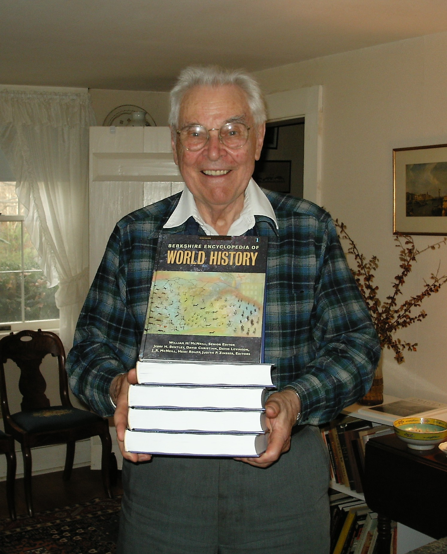 William H. McNeill with first copies of Berkshire Encyclopedia of World History, 31 October 2004.